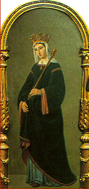 Joanna II of Navarre